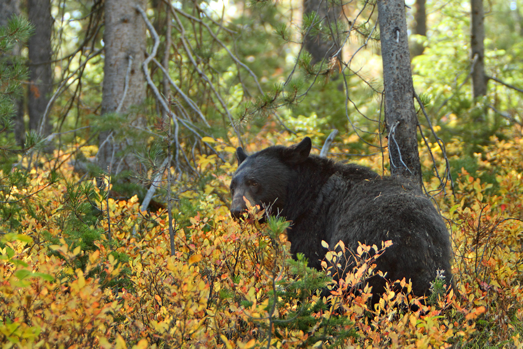 This female black bear had a small cub with her but the cub was so small it is hidden in the undergrowth. The cub was bounding around everywhere and was impossible to capture in the darkness of these woods. You can just see the top of the cub's back near the tree to the left of the mother bear. A week prior to this image being taken, the mother had two cubs, but a local ranger told us that the other cub was recently killed by a grizzly bear. The pair are fattening up on huckleberries.